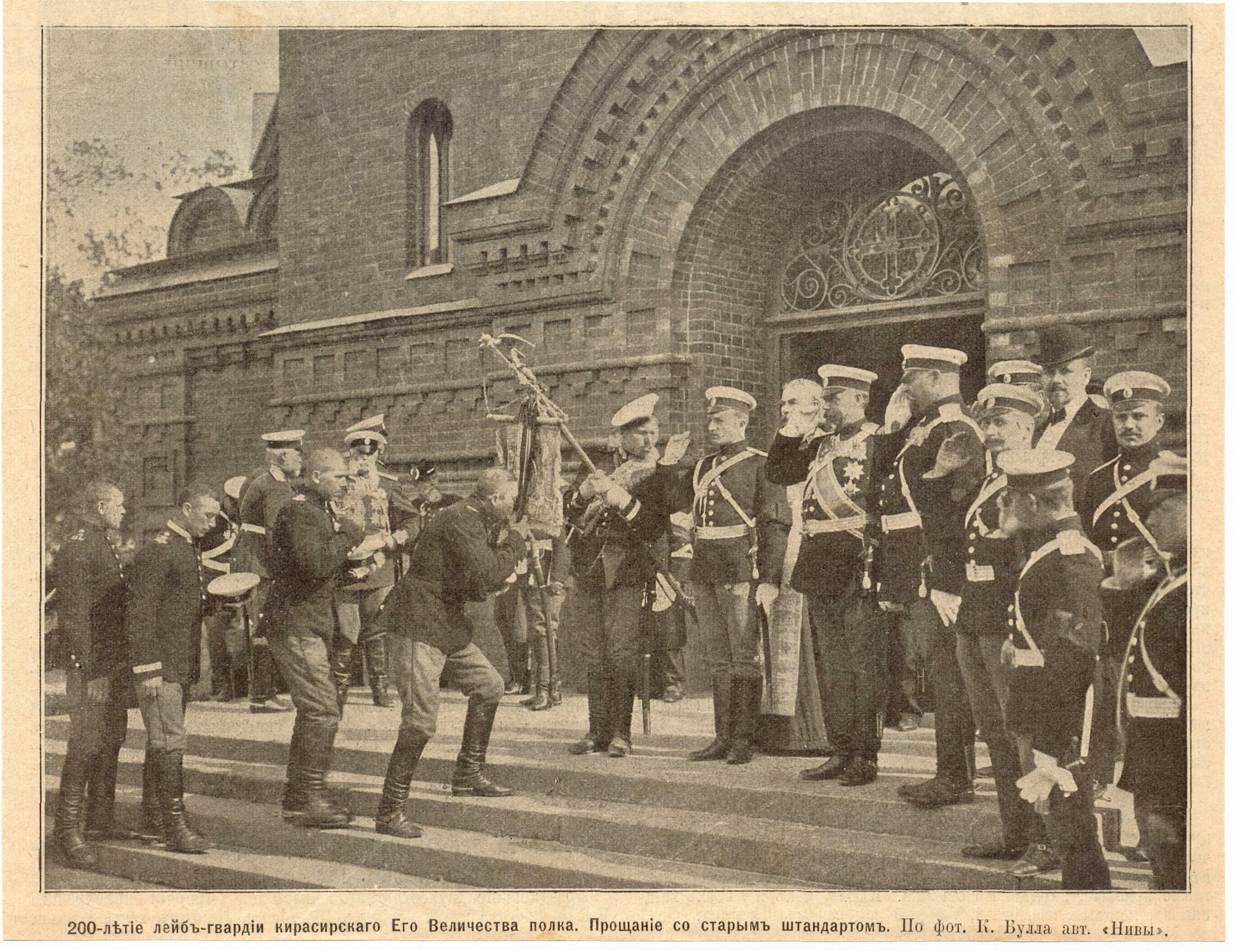 Tsarskoye Selo (Russia)